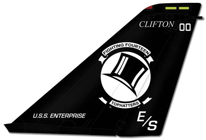 The tail of a US Navy F-14A Tomcat, belonging to VF-14, the "Tophatters". Original created in Adobe Photoshop by Erik Hess in 2004.